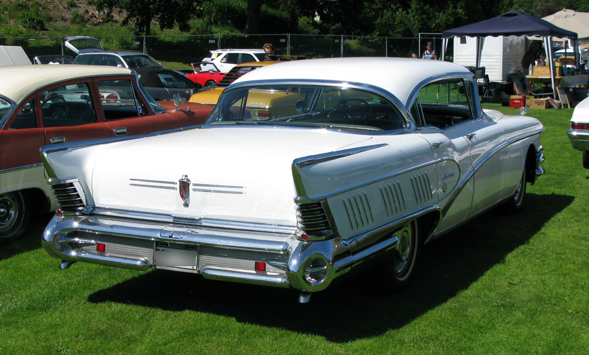 1958 Buick 750 Limited.Event: Nostalgia festival, Ronneby 2012